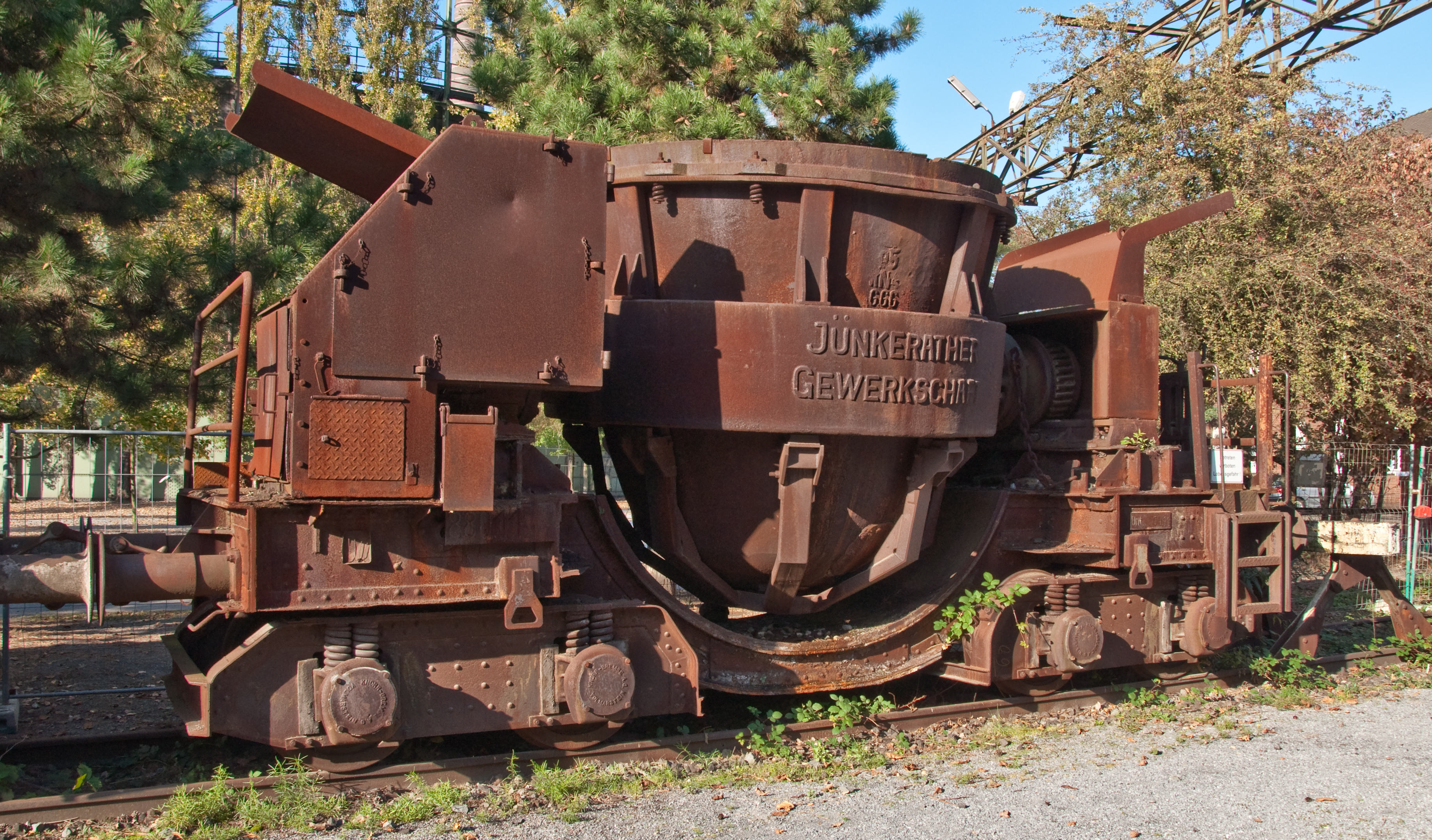 A ladle car in the Landschaftspark Duisburg-Nord, assumably produced before 1960